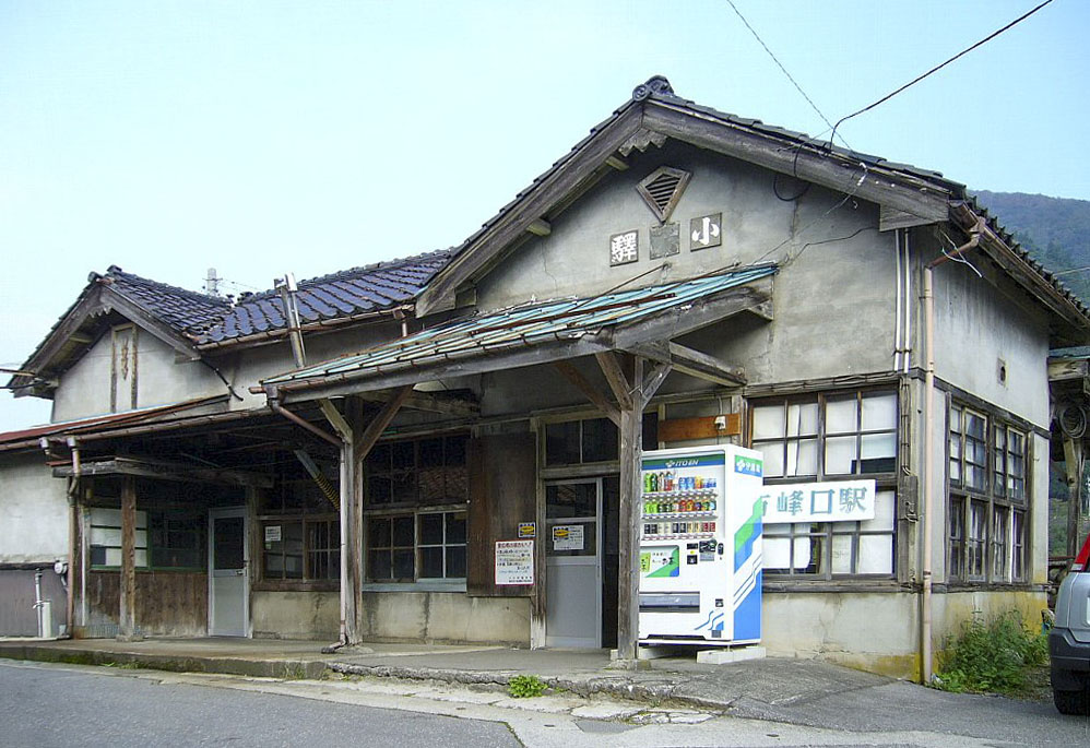 Arimineguchi Station on the Toyama Chiho Railway Tateyama Line in the city of Toyama, Toyama Prefecture, Japan